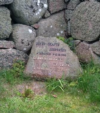 Gravestone of the Danish writer of children's books, Dines Skafte Jespersen